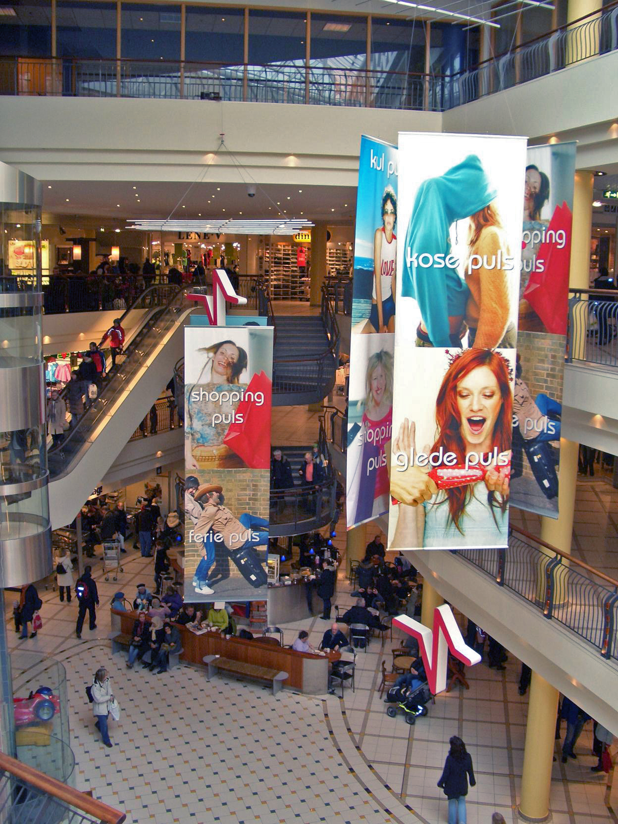 Nerstanda shopping mall in Tromsø, Norway